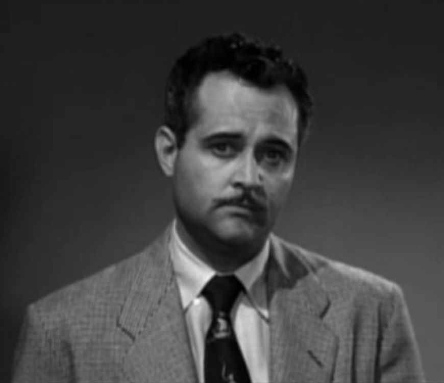 Timothy Farrell as Vic Brady in the film Jail Bait